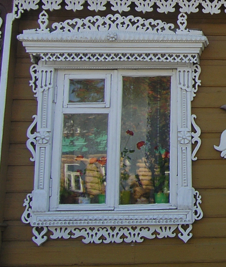 Fortochka